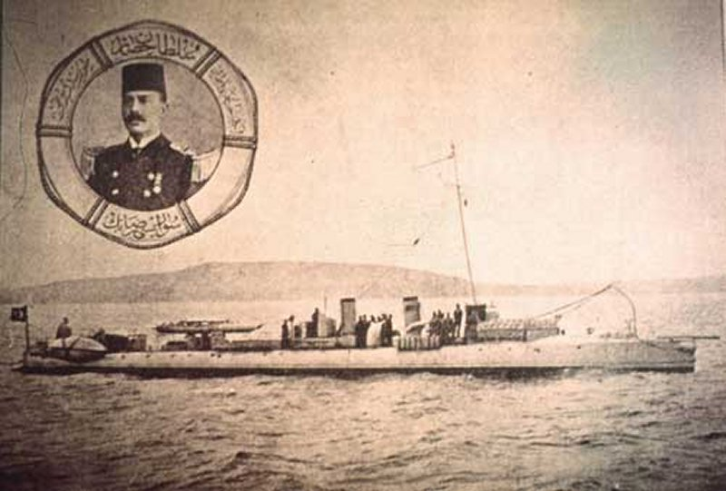 Lieutenant commander Ali Riza Bey and Ottoman torpedo boat Sultan Hisar